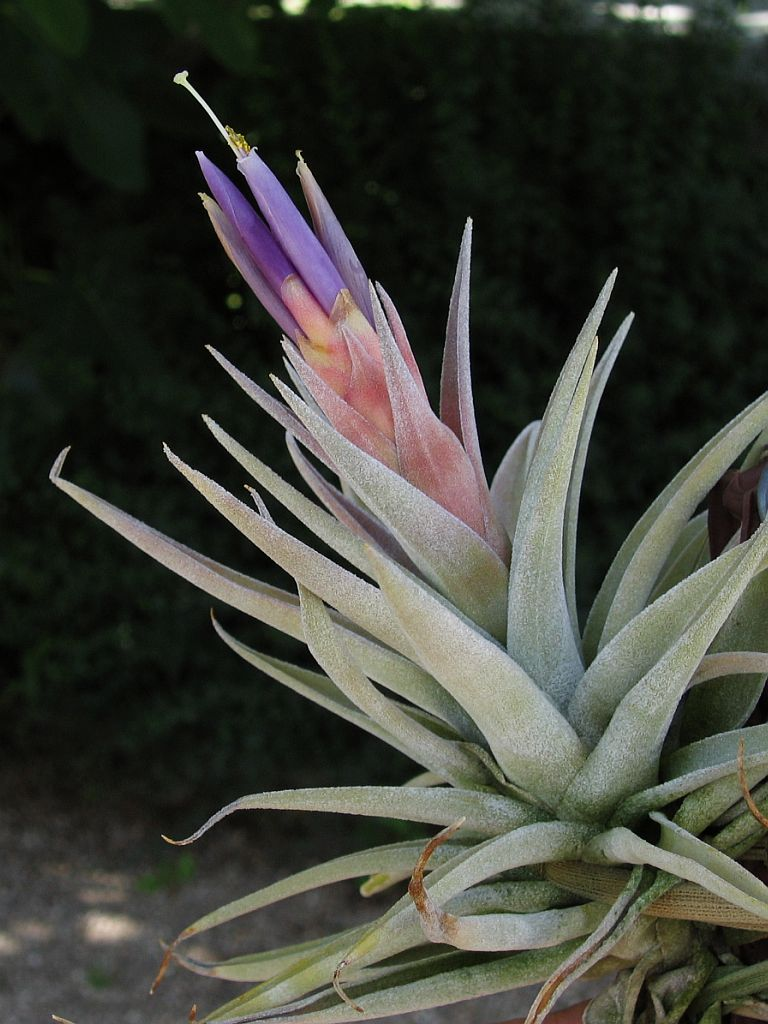 Tillandsia hondurensis, in cultivation at the Botanical Garden of Heidelberg, Germany. This image shows the living type plant.